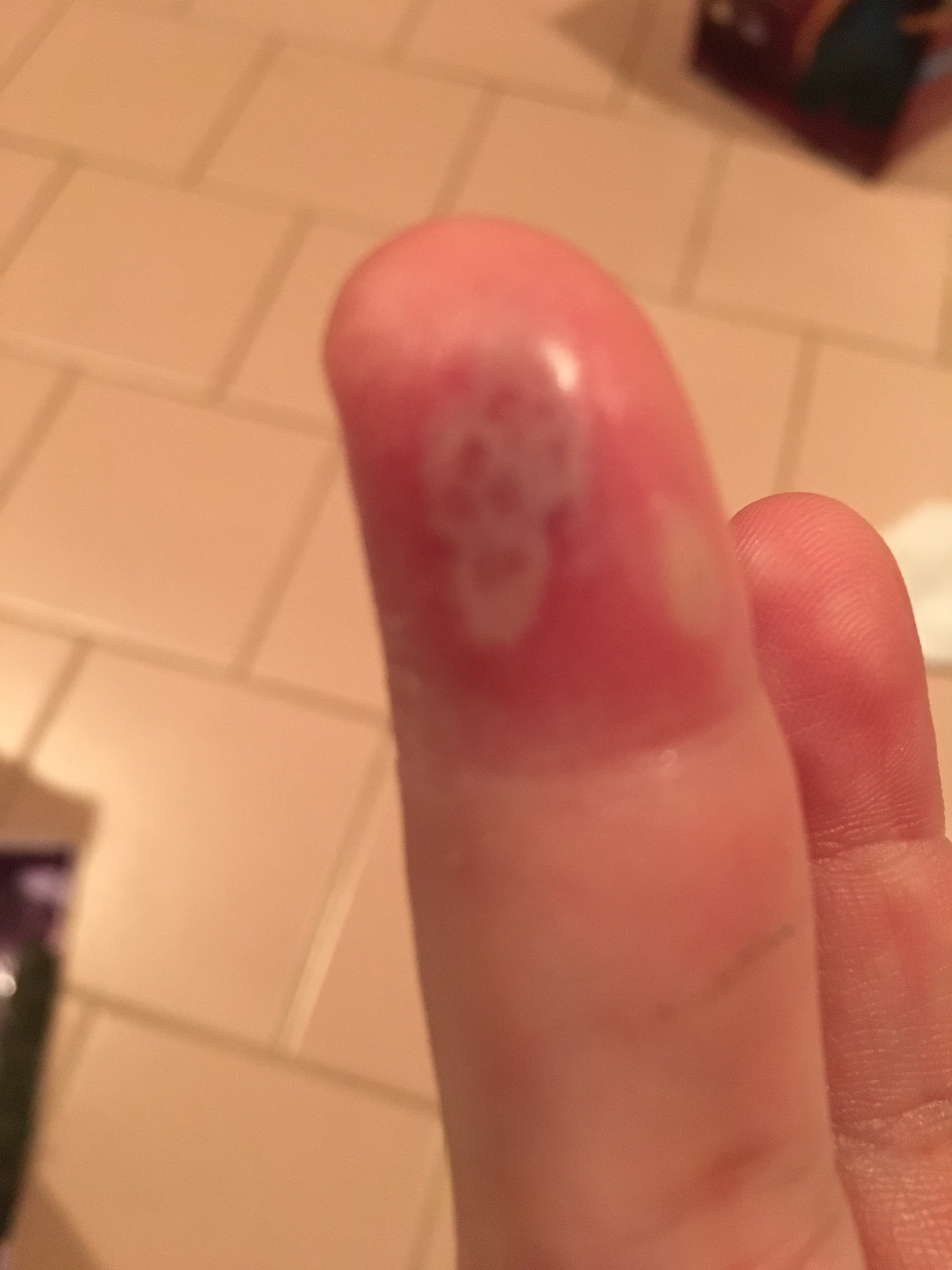 Vessicles, cloudy blister